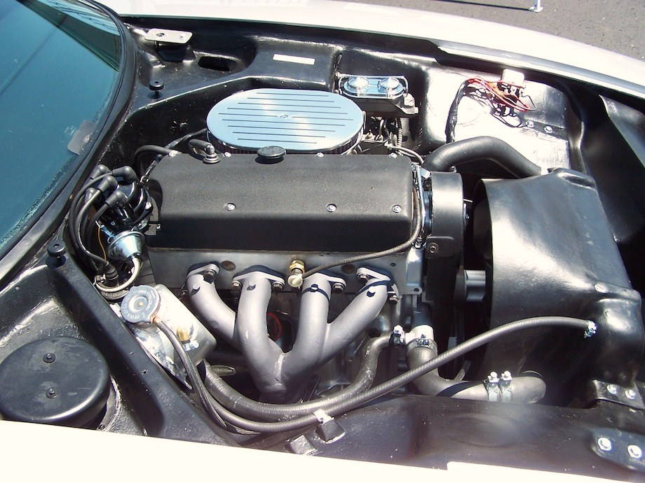 The 1973 Chevrolet XP-898 engine, mounted in a Vega.